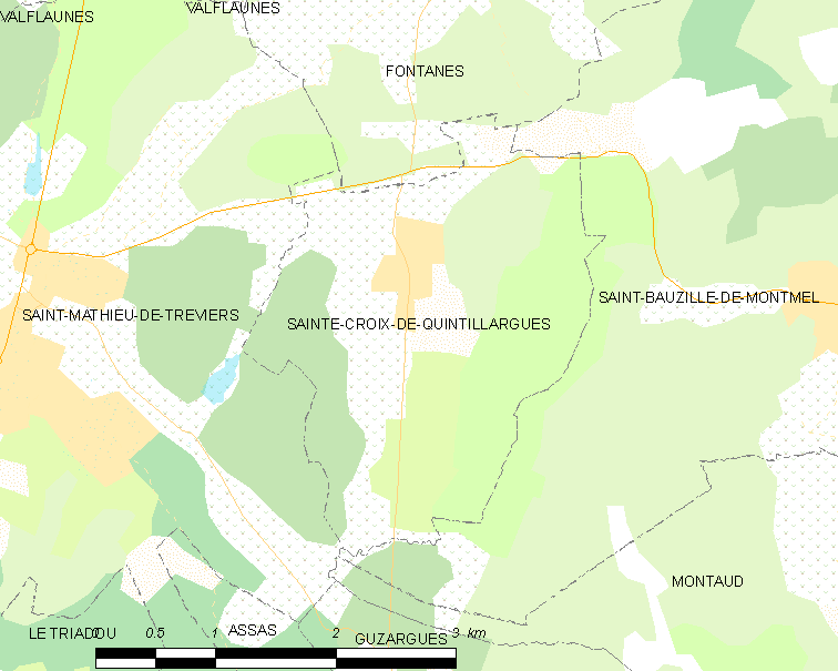 Map commune FR insee code 34248.png - Sainte-Croix-de-Quintillargues